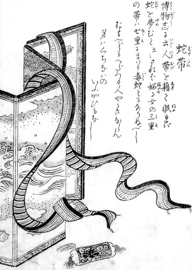 Jatai (蛇帯, an obi that has transformed into a snake) from the Konjaku Hyakki Shūi (今昔百鬼拾遺)